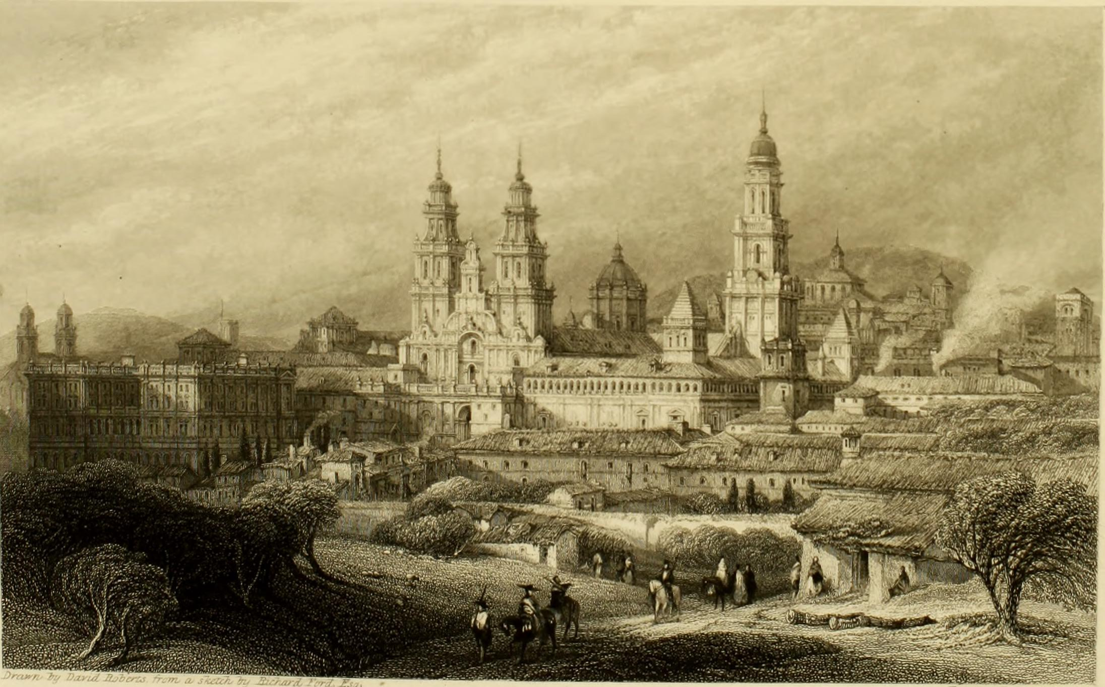 Title: Picturesque views in Spain and Morocco : comprising Granada, with the palace of the Alhambra, Andalosia, Castile, Valencia, Gibraltar, Tangiers, Tetuan, Morocco, the town of Constantina, etc. Year: 1838 (1830s) Authors: Roberts, David, 1796-1864 Roberts, David, 1796-1864, signer. UPB Subjects: Publisher: London : Robert Jennings Text Appearing Before Image: ' Text Appearing After Image: '